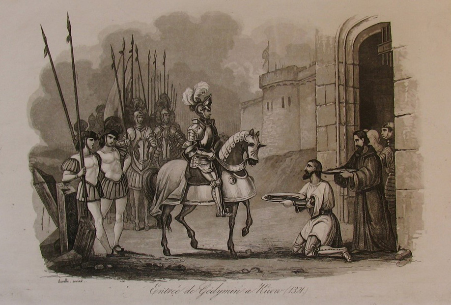 Gediminas enters Kiev. The painting from one book by Leonard Chodźko (1824)